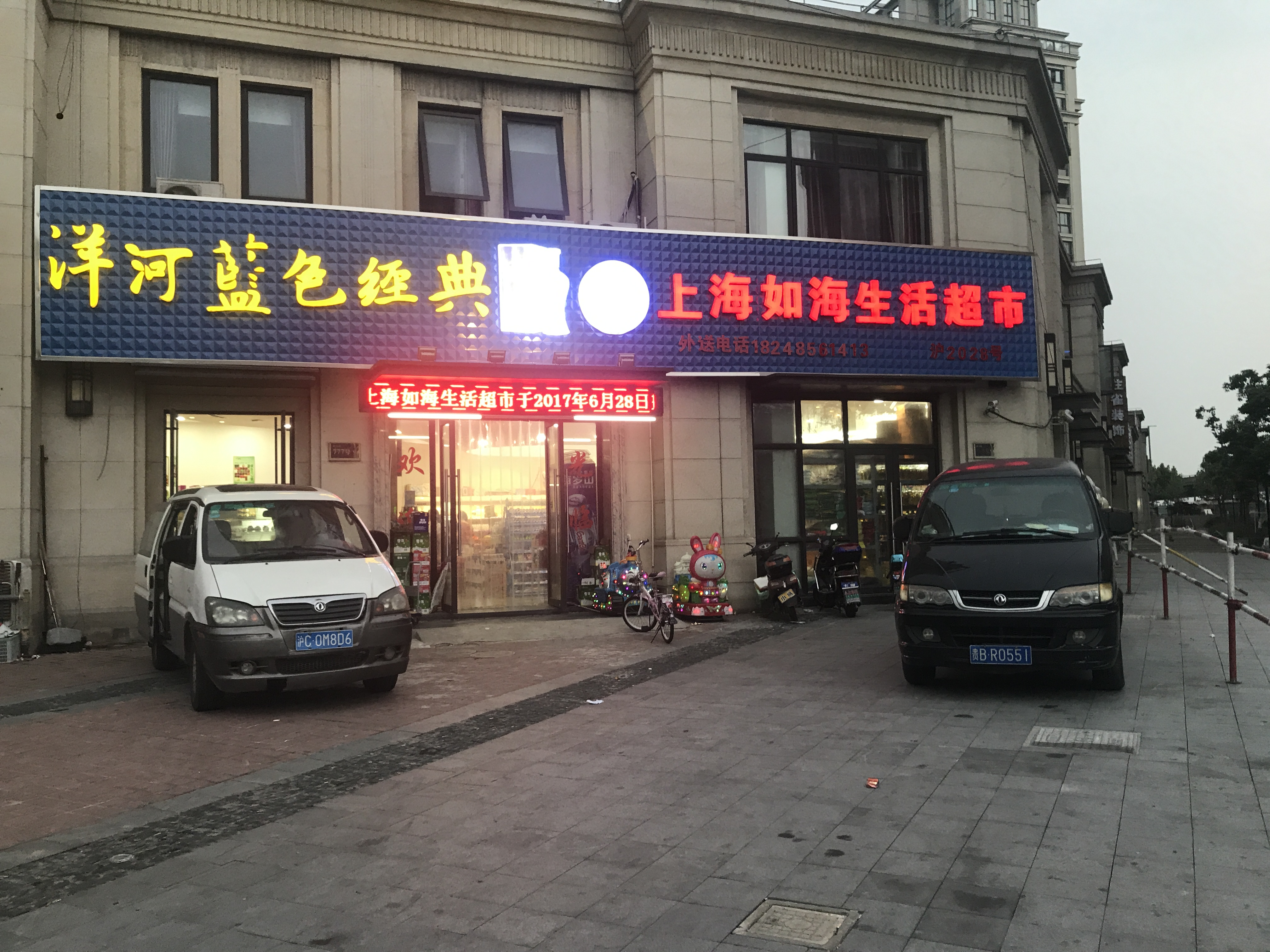 2 Mitsubishi Delica-based Dongfeng vans in front of a market.